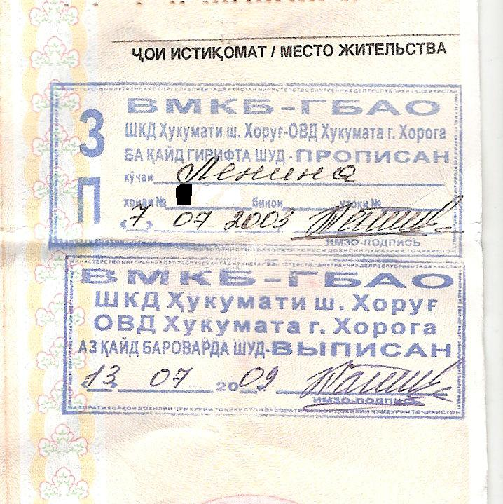 Propiska (sign in) and Vypiska (Sign out) in Tajikistani passport